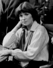 Jennifer Salt in Soap publicity shot